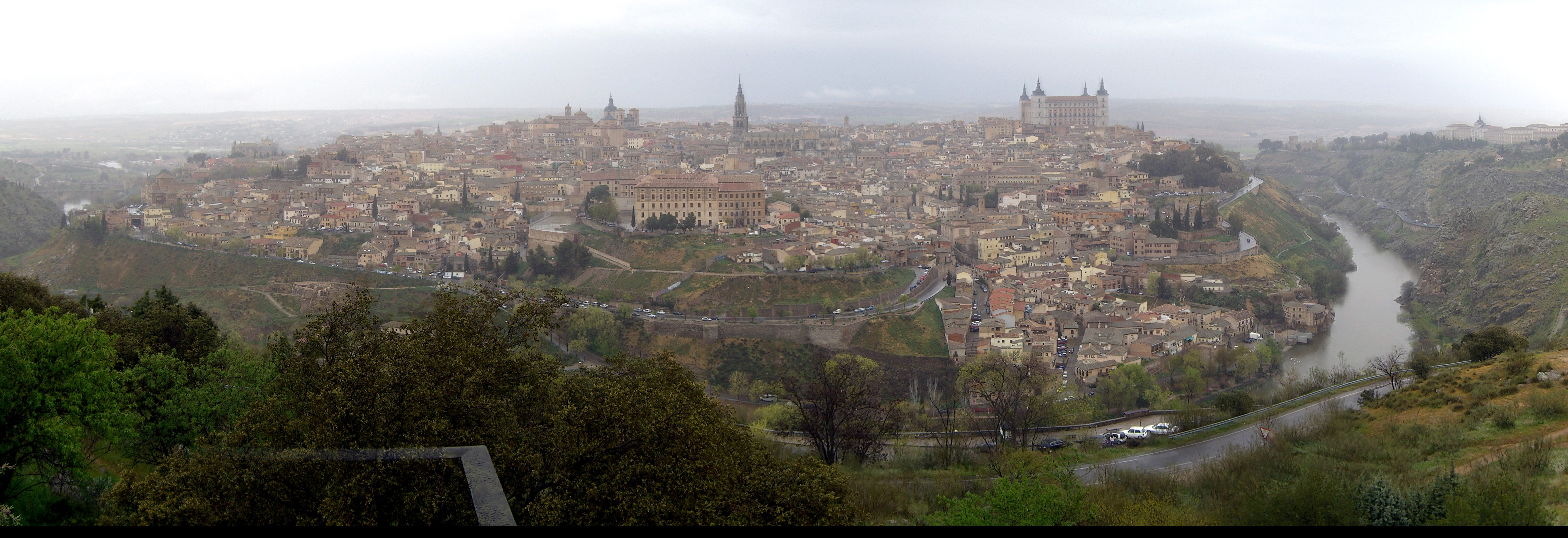 General view of Toledo (Province of Toledo, Castile-La Mancha, Spain).